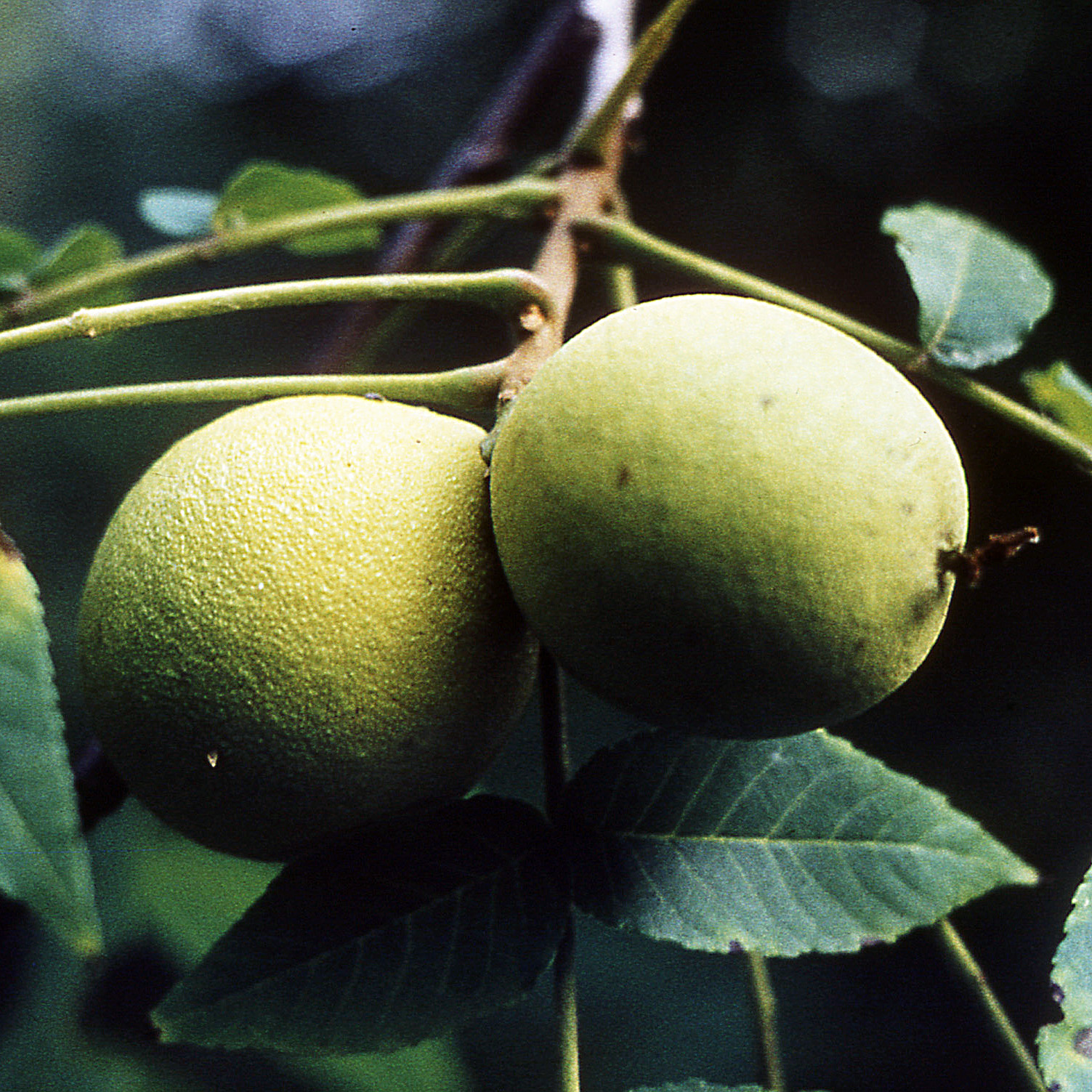 Juglans nigra drupe-like nut